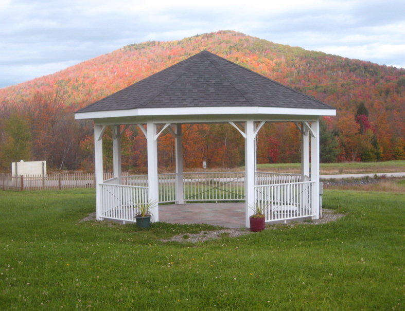 Middlesex, Vermont bandstand in front of Mount Dumpling.